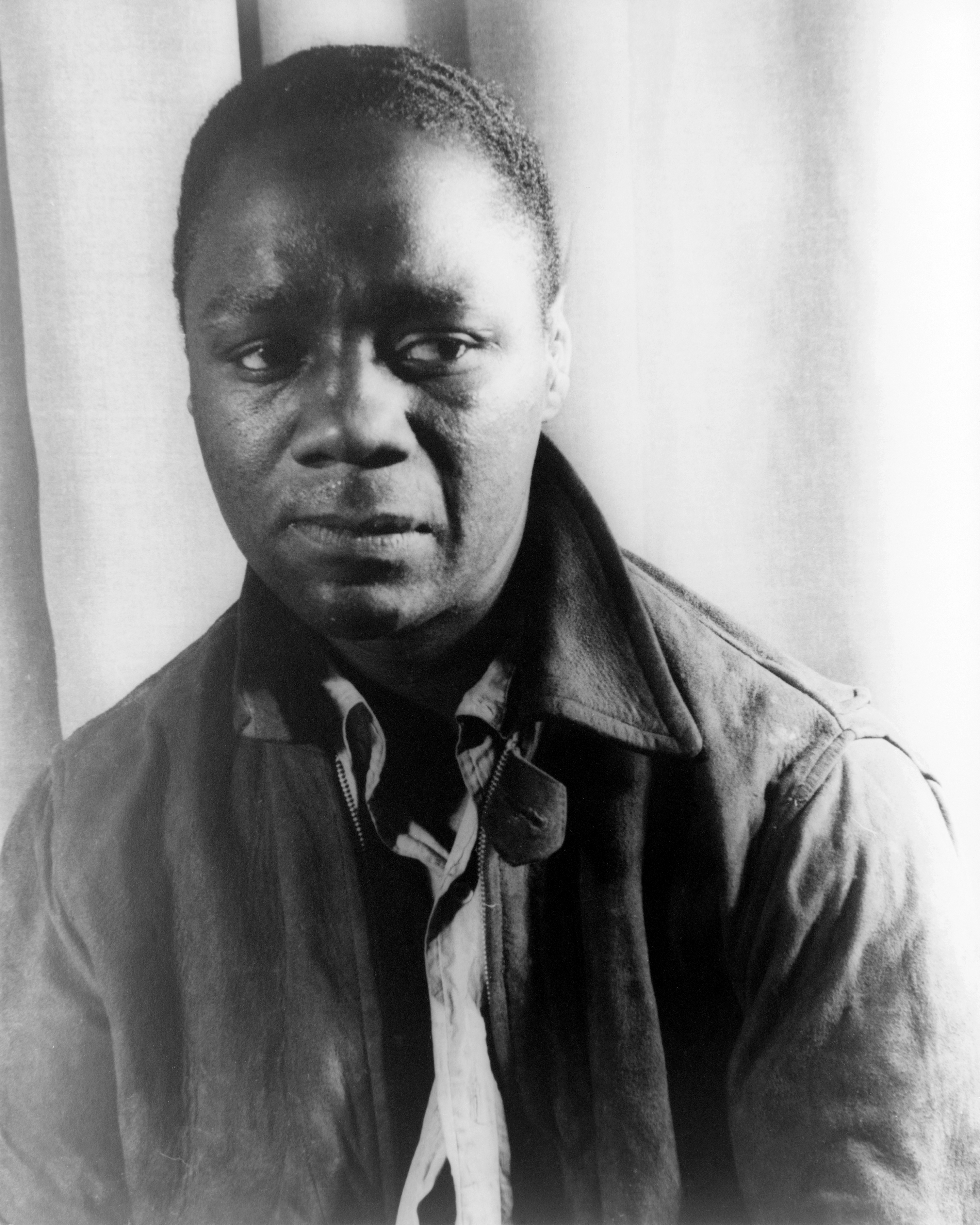 Portrait of actor Canada Lee — in Native Son. Portrait of Canada Lee (1941 Apr. 07)